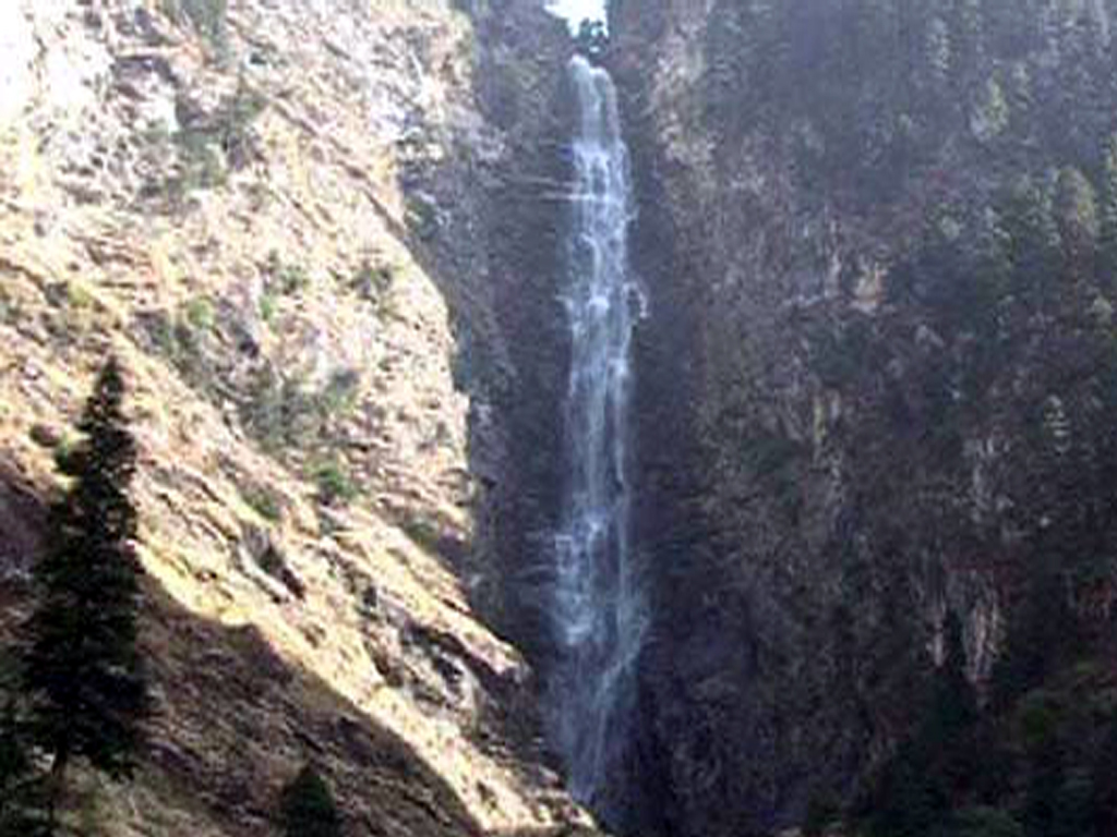 Pacāla waterfall near Ramanakot